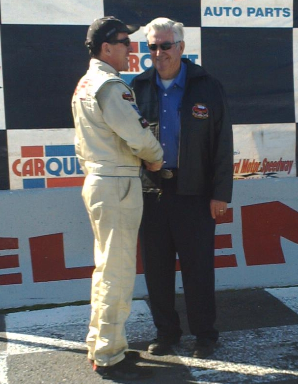 NASCAR drivers Ted Christopher and Bobby Allison shake hands during driver introductions at the 2008 Camping World Series season finale race at Stafford Motor Speedway.